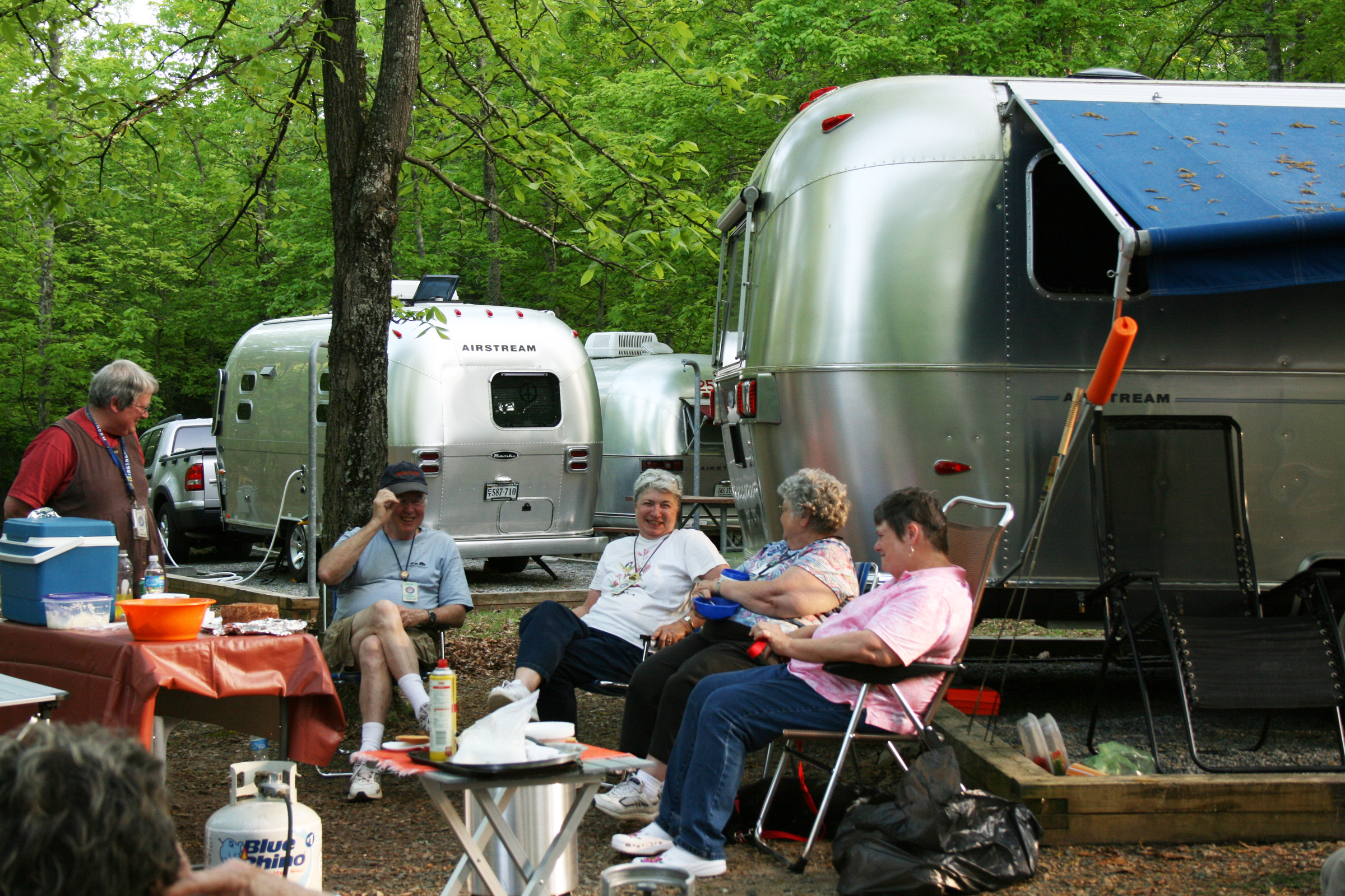 Happy Campers Used in blog SA